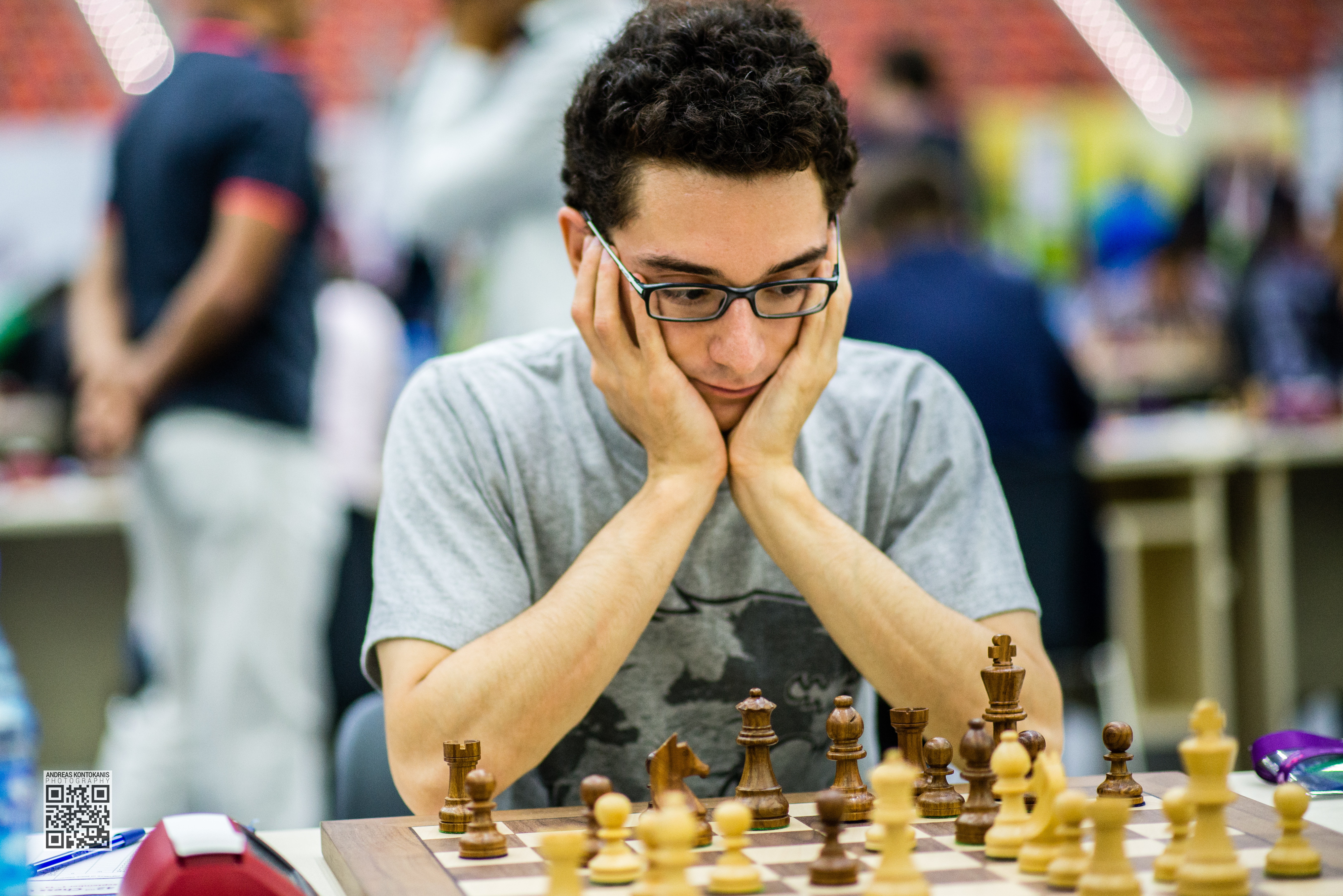 Caruana Fabiano